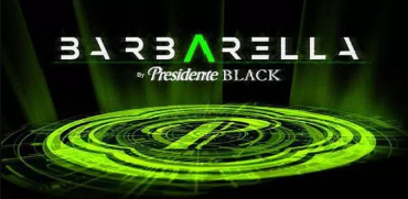 Barbarella by Presidente Black